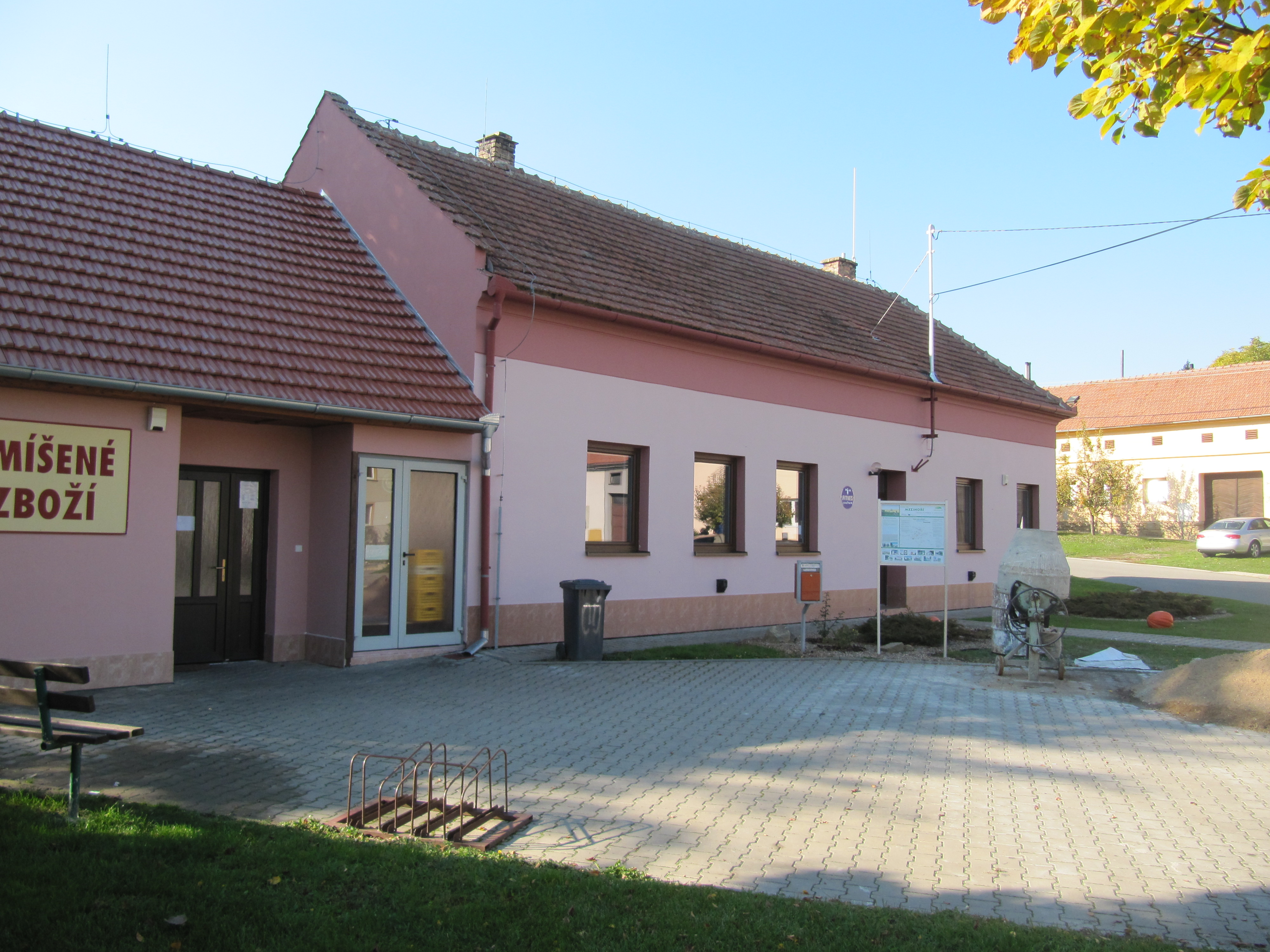 Nemochovice in Vyškov District, Czech Republic. Municipal office.